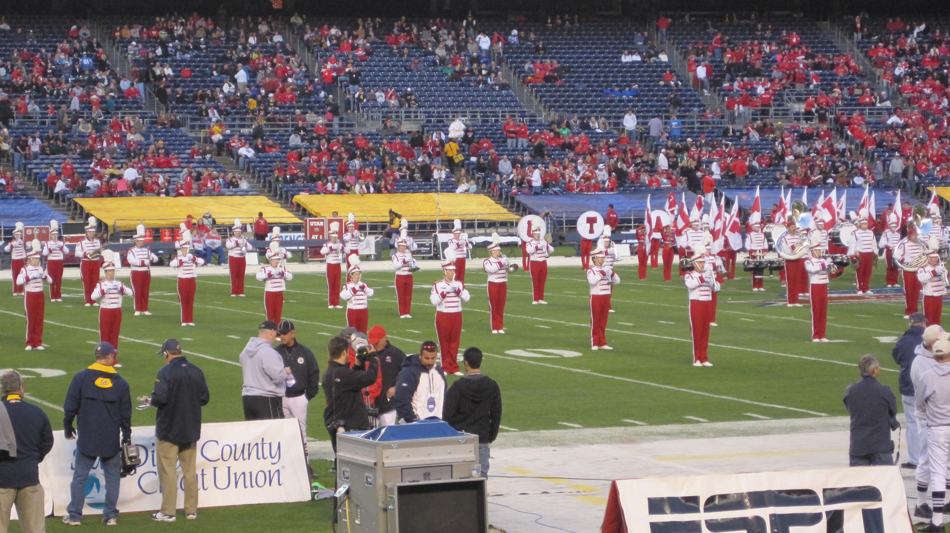 The Pride of Utah performs its pregame routine at the 2009 Poinsettia Bowl between the California Golden Bears and the Utah Utes. The Utes won 37-27.